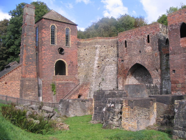 Blast furnaces at Blists Hill Remains of the blast furnaces at the Blists Hill Museum in Ironbridge Gorge. The tall building at the left housed one of two blowers for the furnaces